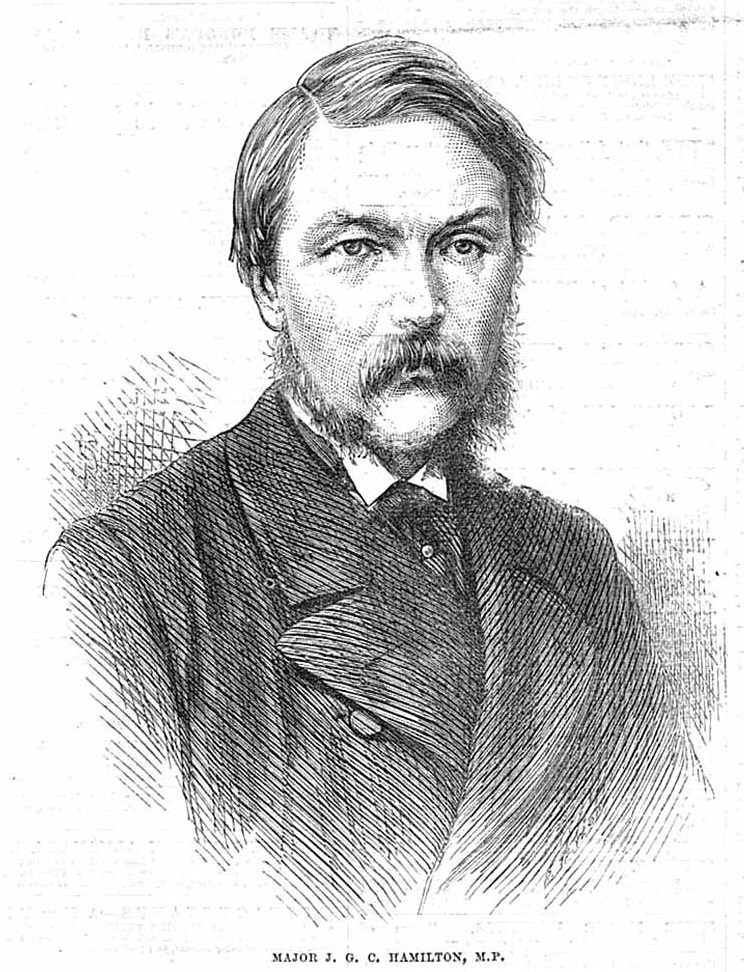 Portrait of Major J. G. C. Hamilton, M.P., published in The Illustrated London News on 18 February 1871